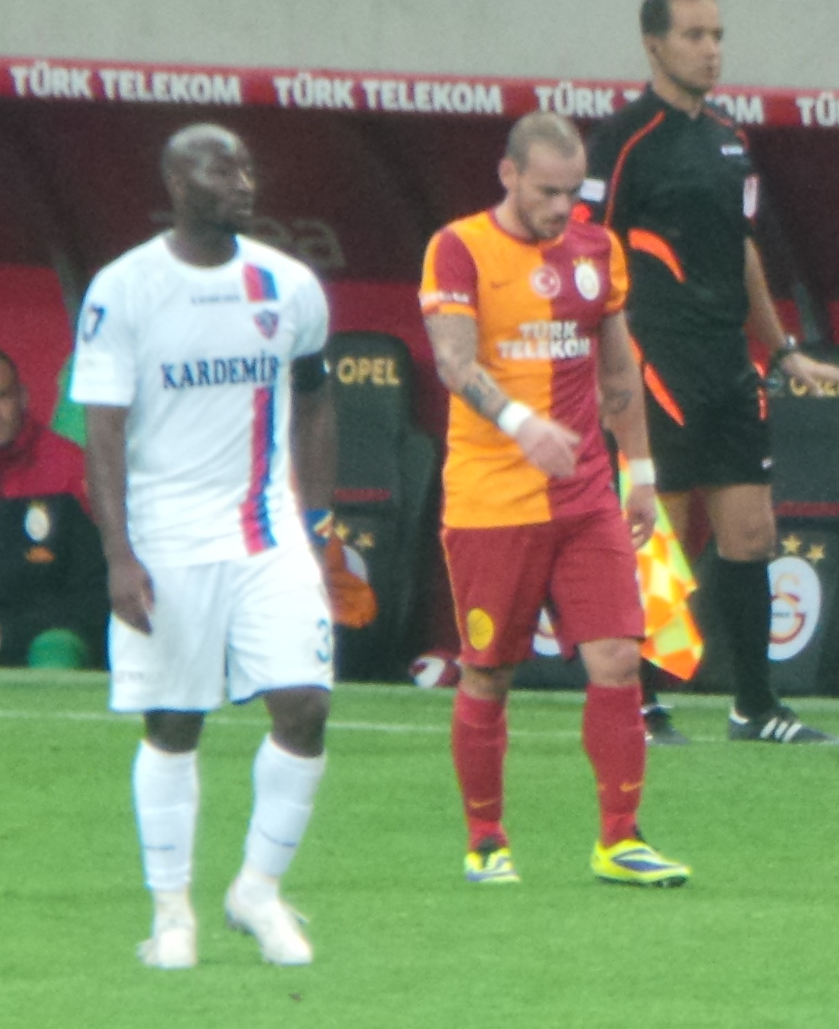 Sneijder and LuaLua